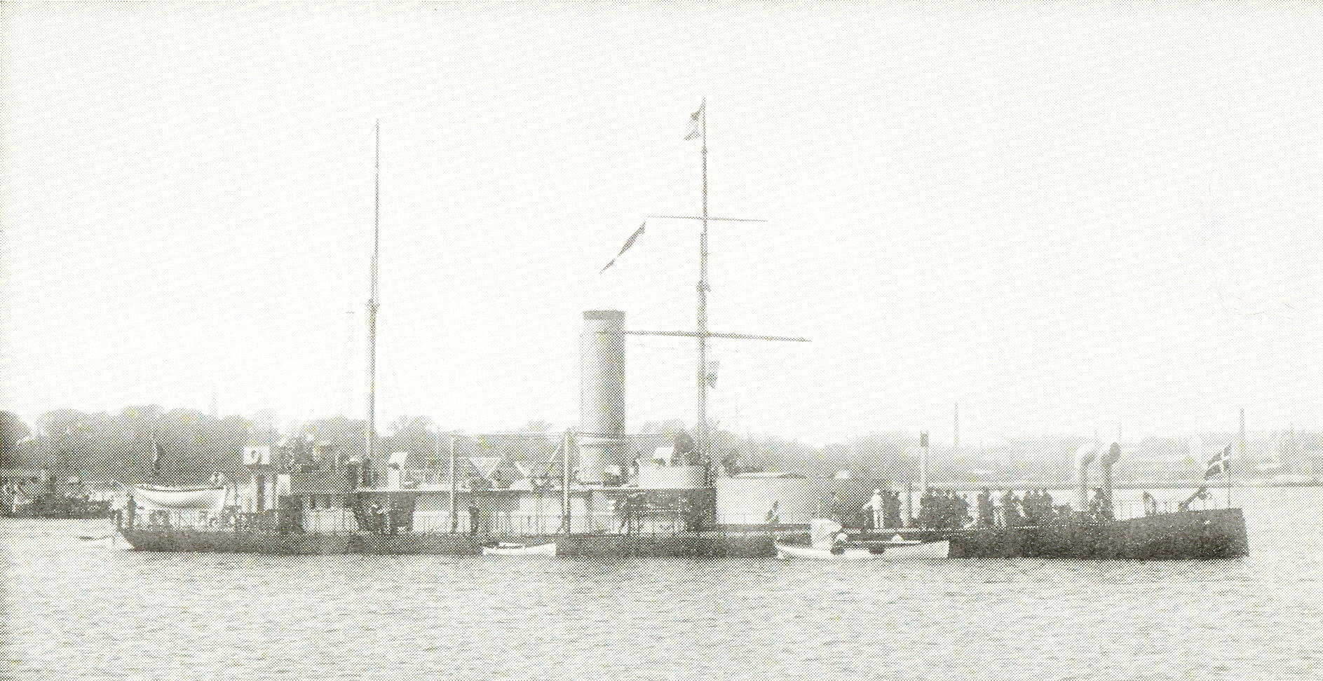 Danish Ironclad Gorm, launched in 1870. The black, white and buff paint was used until the end of 1883.